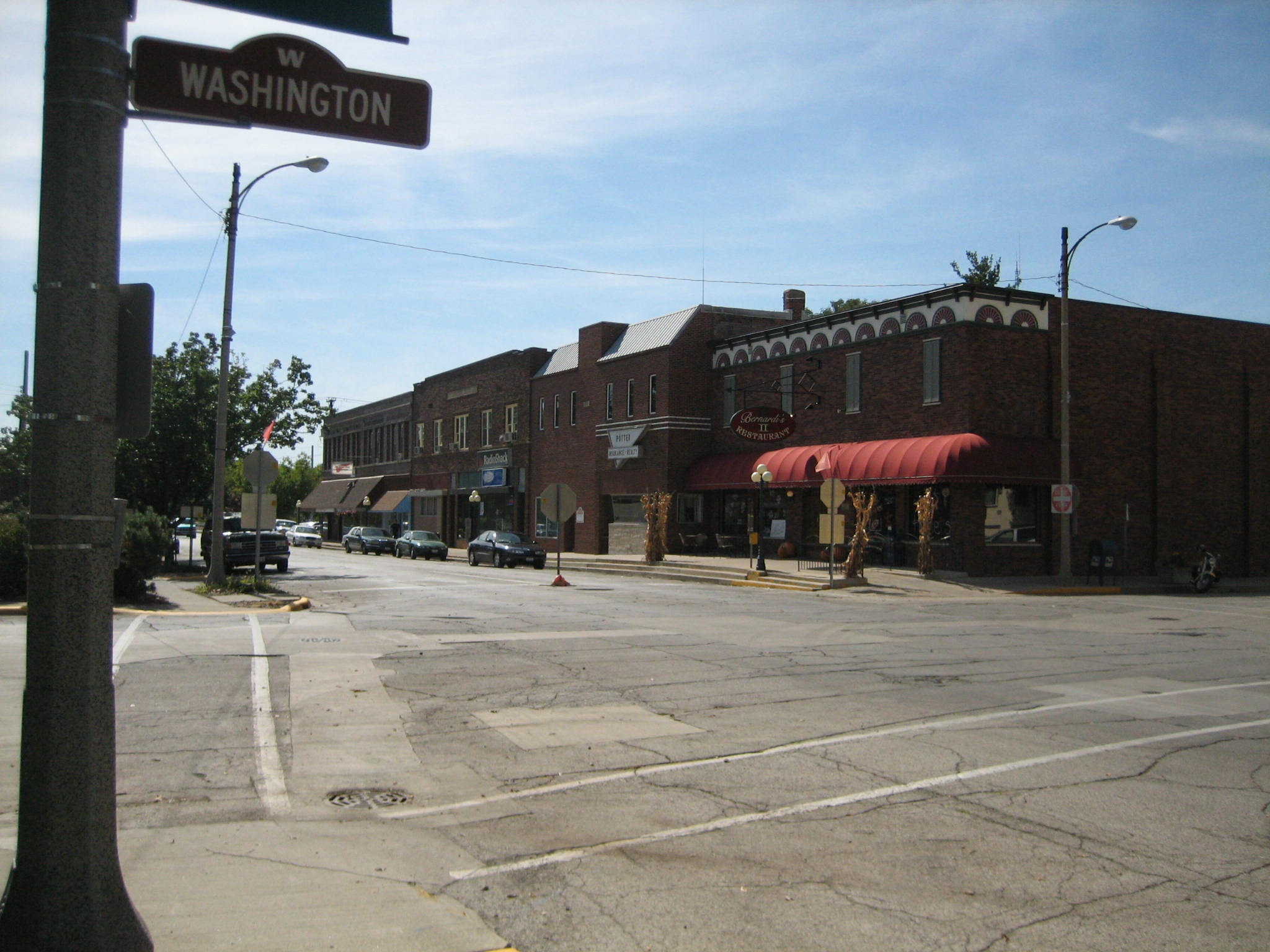 Downtown, Pontiac, Illinois, USA.